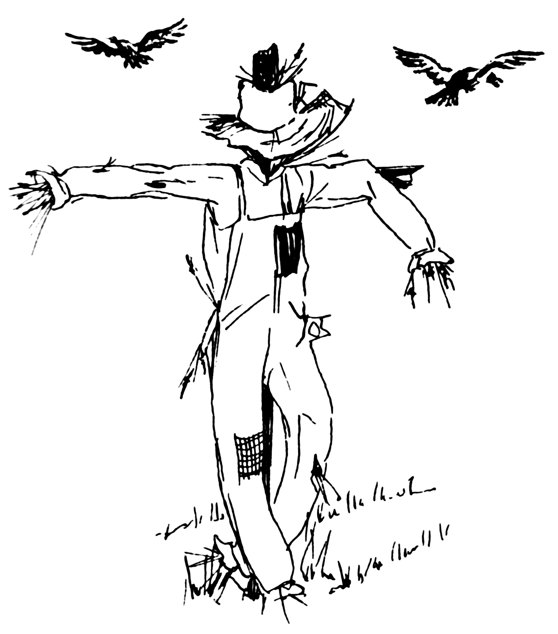 Line art of scarecrow.